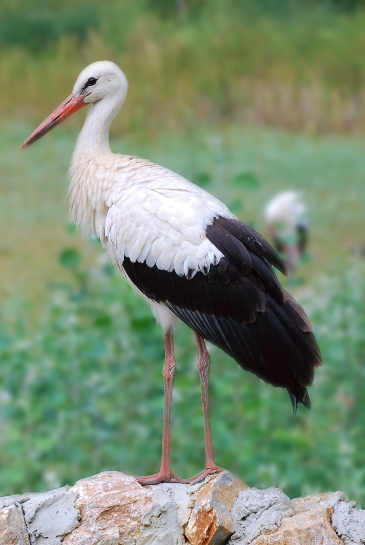 A stork. Ornithologists please help and specify which kind :) White Stork, Ciconia ciconia. Nice photo! Dysmorodrepanis (talk) 01:24, 18 September 2008 (UTC)